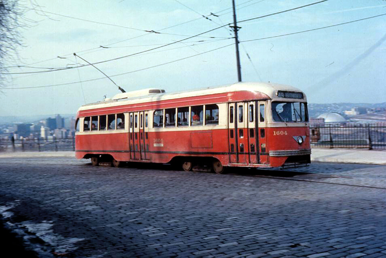 Scan of the photo that I've made myself in Pittsburgh in 1970s. PCC 1604 on line 49 - BELTZHOOVER.